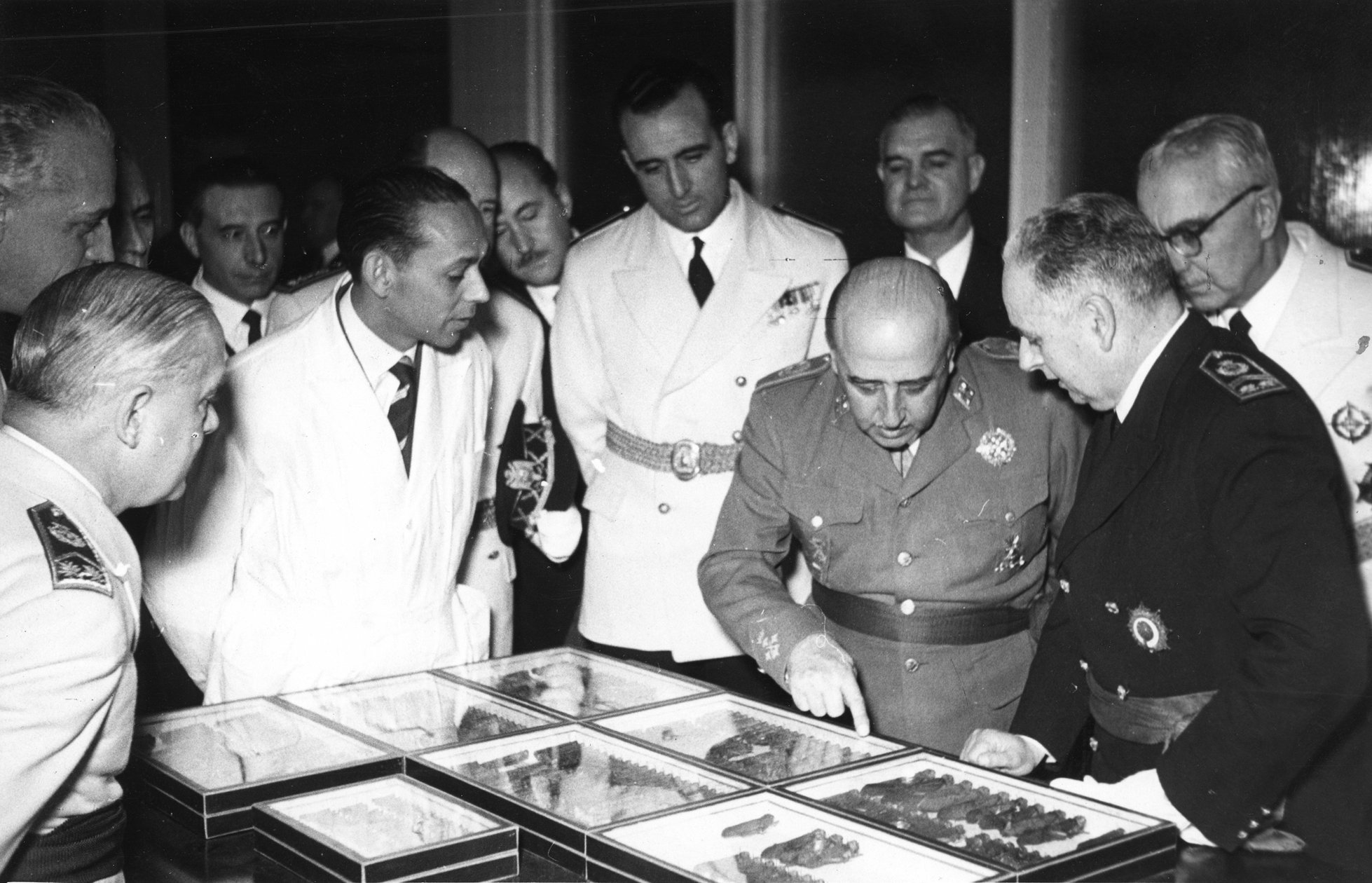 Eugenio Morales Agacino (center-left), Joaquín Ruiz-Giménez Cortés (center) and Francisco Franco on the opening day of the new INIA facilities at Puerta de Hierro, Madrid (March 11, 1954).